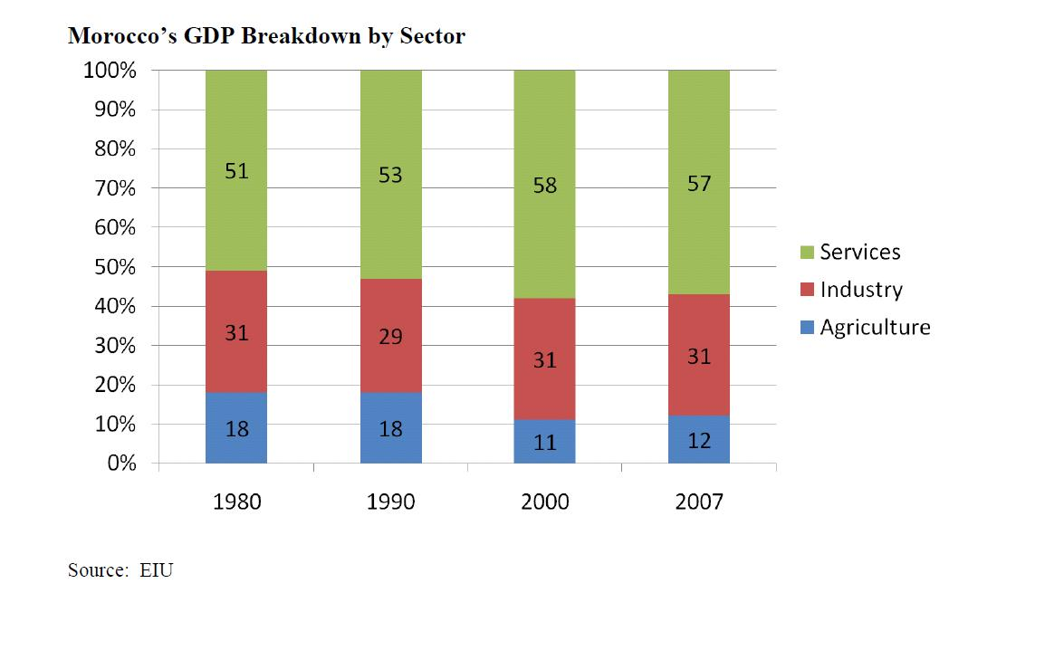 Breakdown of Moroccan GDP by sector (source:EIU)